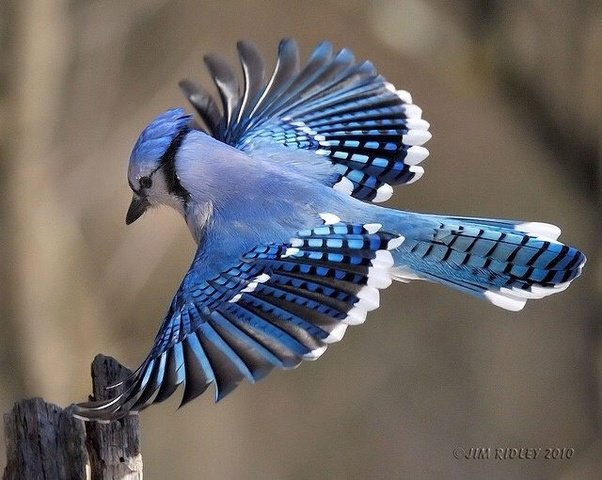 Blue Jay in flight by Jim Ridley 2010.